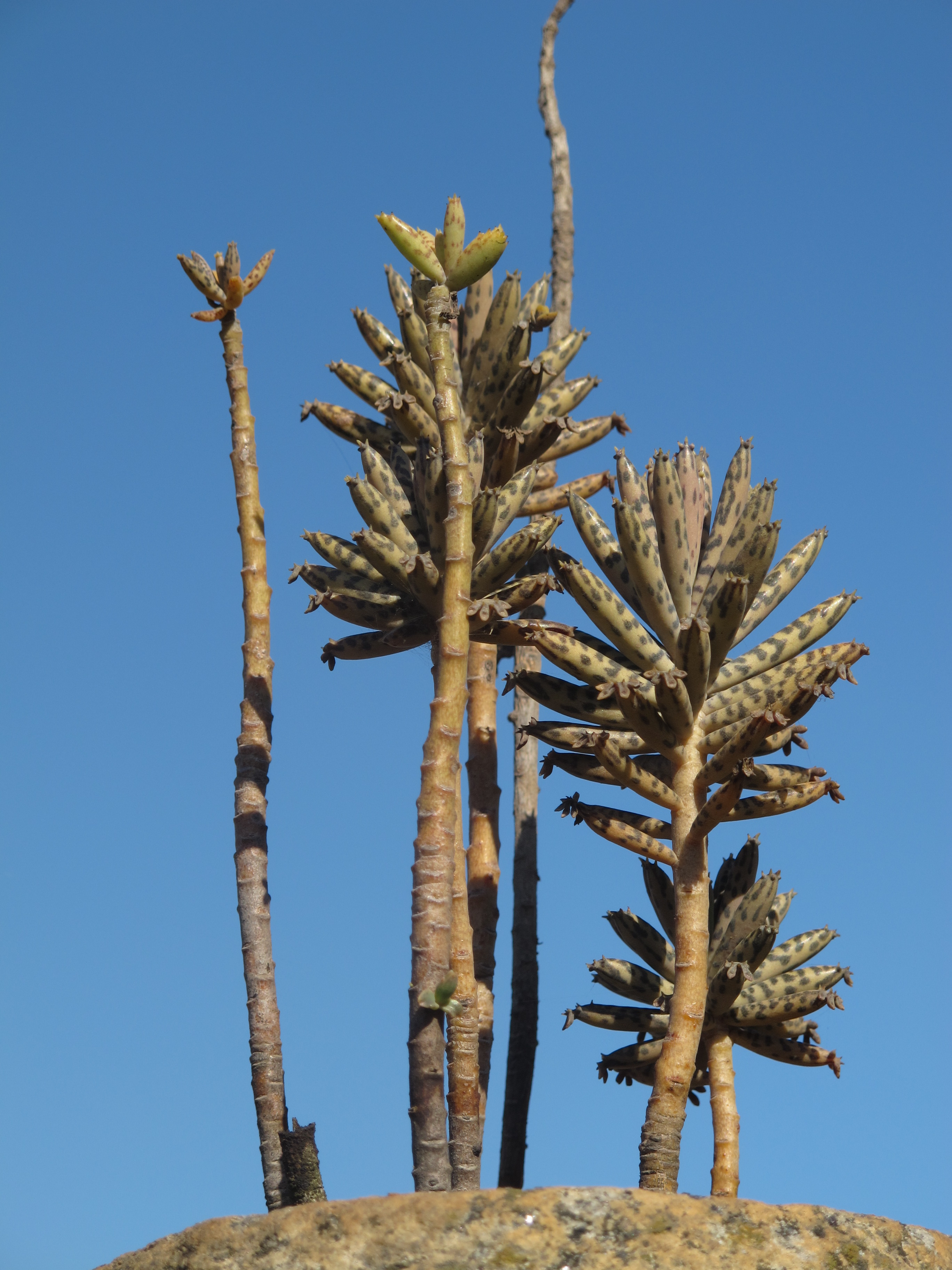 Kalanchoe delagoensis at Antananarivo, Madagascar